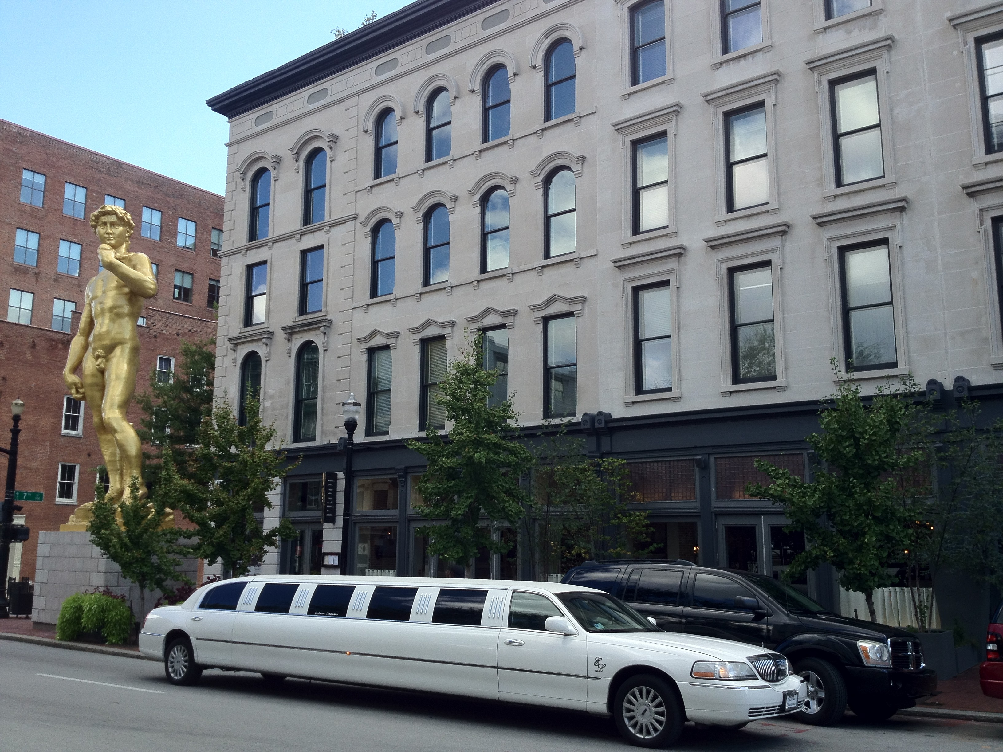 This is the first time I've gotten around to checking out the David sculpture since it was installed in May. 21c commissioned Turkish artist Serkan Ozkaya to transport the sculpture from Istanbul to NYC and then to Louisville. From a New York Times article: The museum's chairman, Steve Wilson, trailed David across the bridge and into Manhattan after talking about "taking art to people who don’t go to museums" and about the plaster cast of David at the Victoria and Albert Museum in London. "The queen was mortified" by the statue, he said, "so they made a fig leaf." People who visit the Louisville museum may hear about the fig leaf, even though Mr. Ozkaya’s statue did not come with one. "We're producing a necklace" with two pendants to be sold in the gift shop in Louisville, Mr. Wilson said. "One is the fig leaf and one is the penis. They're on order." IMG_5101